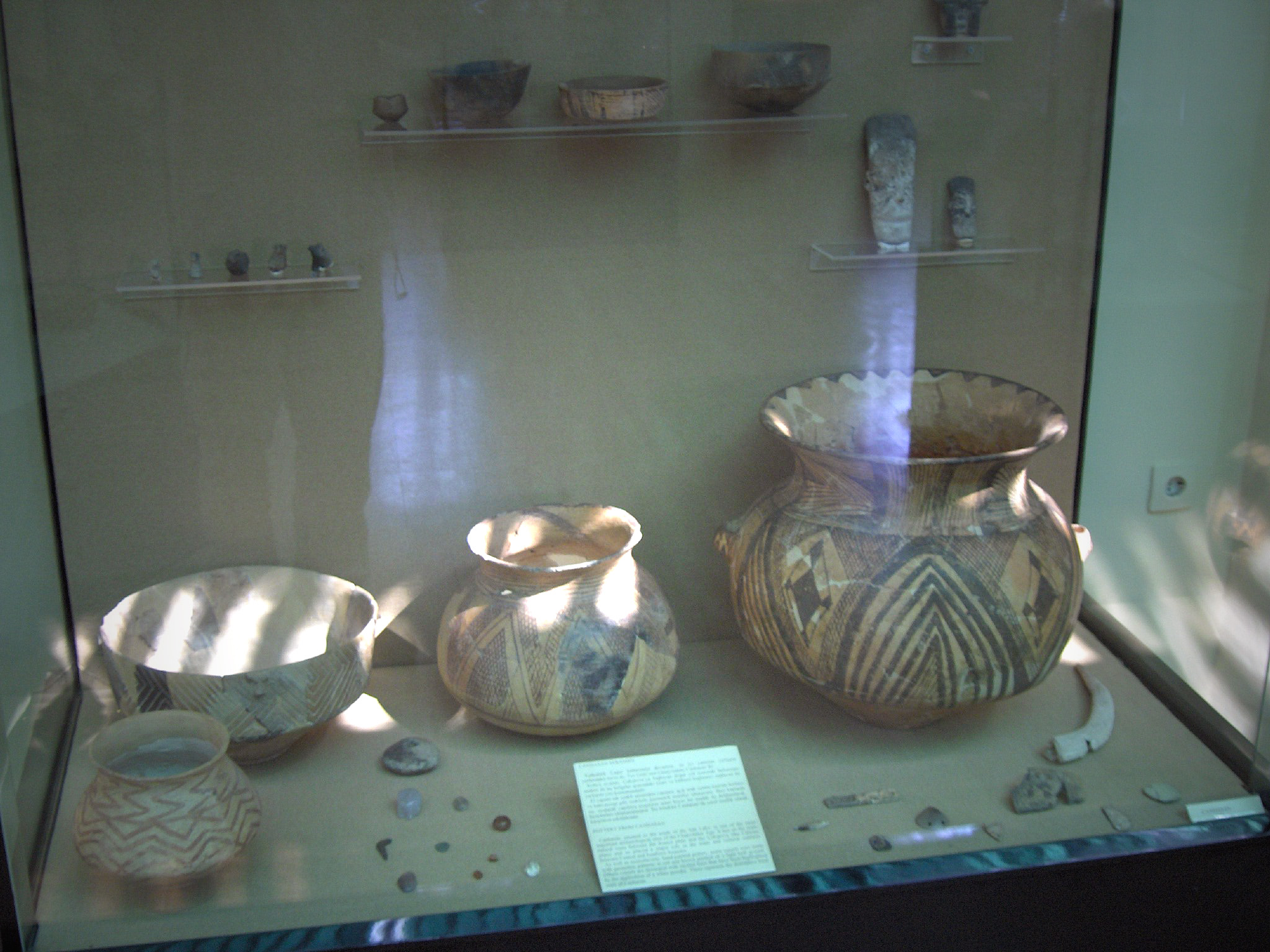 Painted vessels; found at Canhasan; Museum of Anatolian Civilizations, Ankara, Turkey